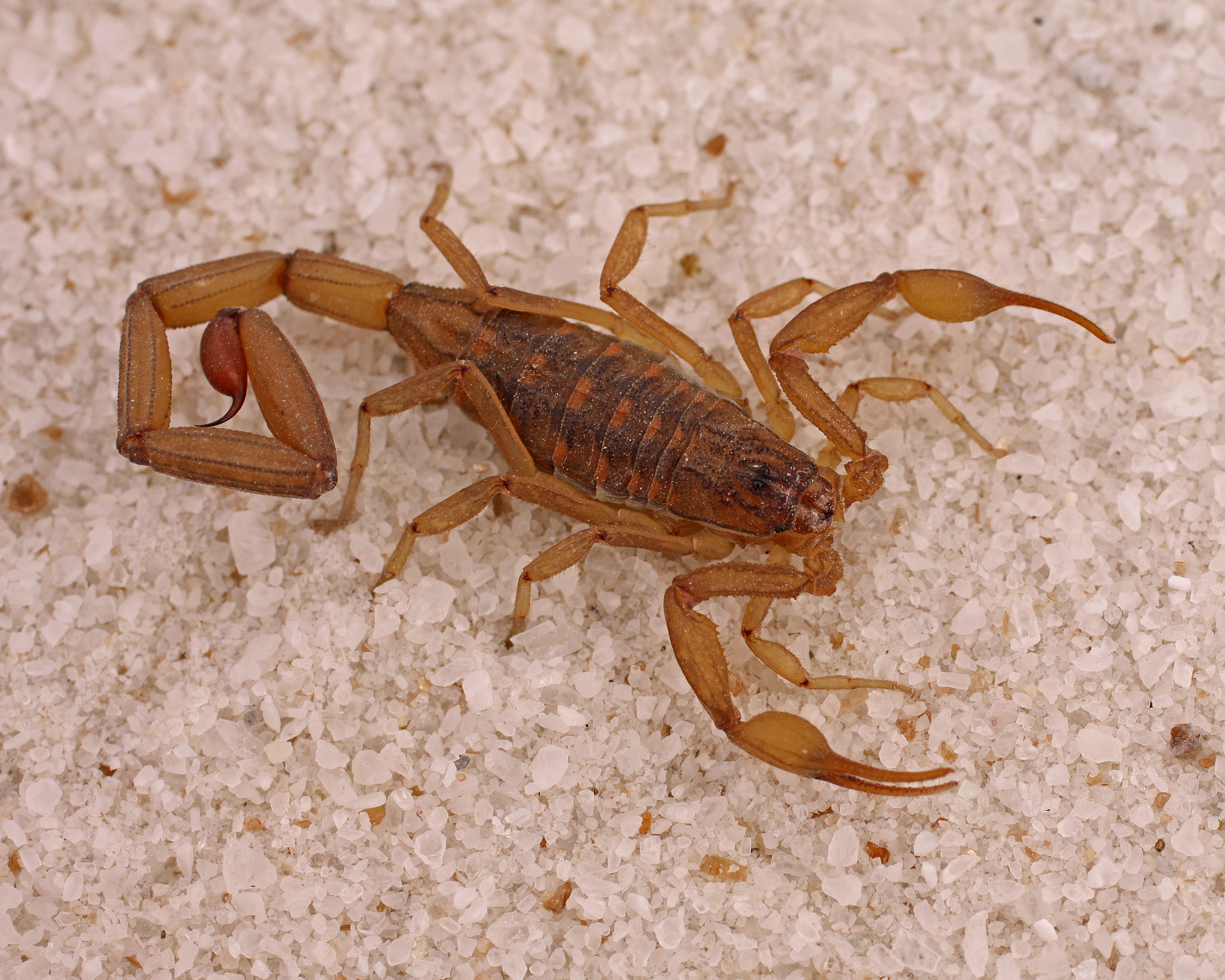 Centruroides infamatus, taken in León, Guanajuato, Mexico